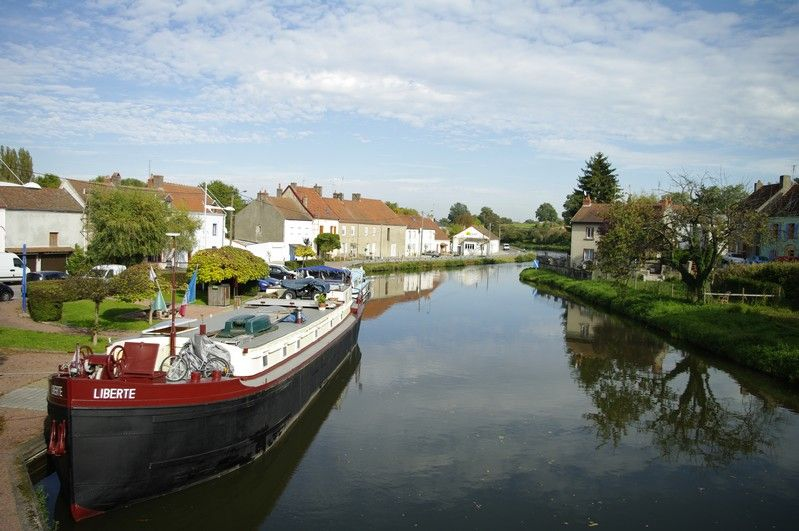 Blanzy - Water stop on the "Canal du Centre"